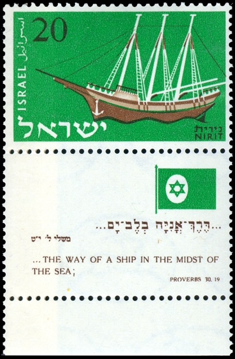 Navigation stamp - 20 mil - Nirit